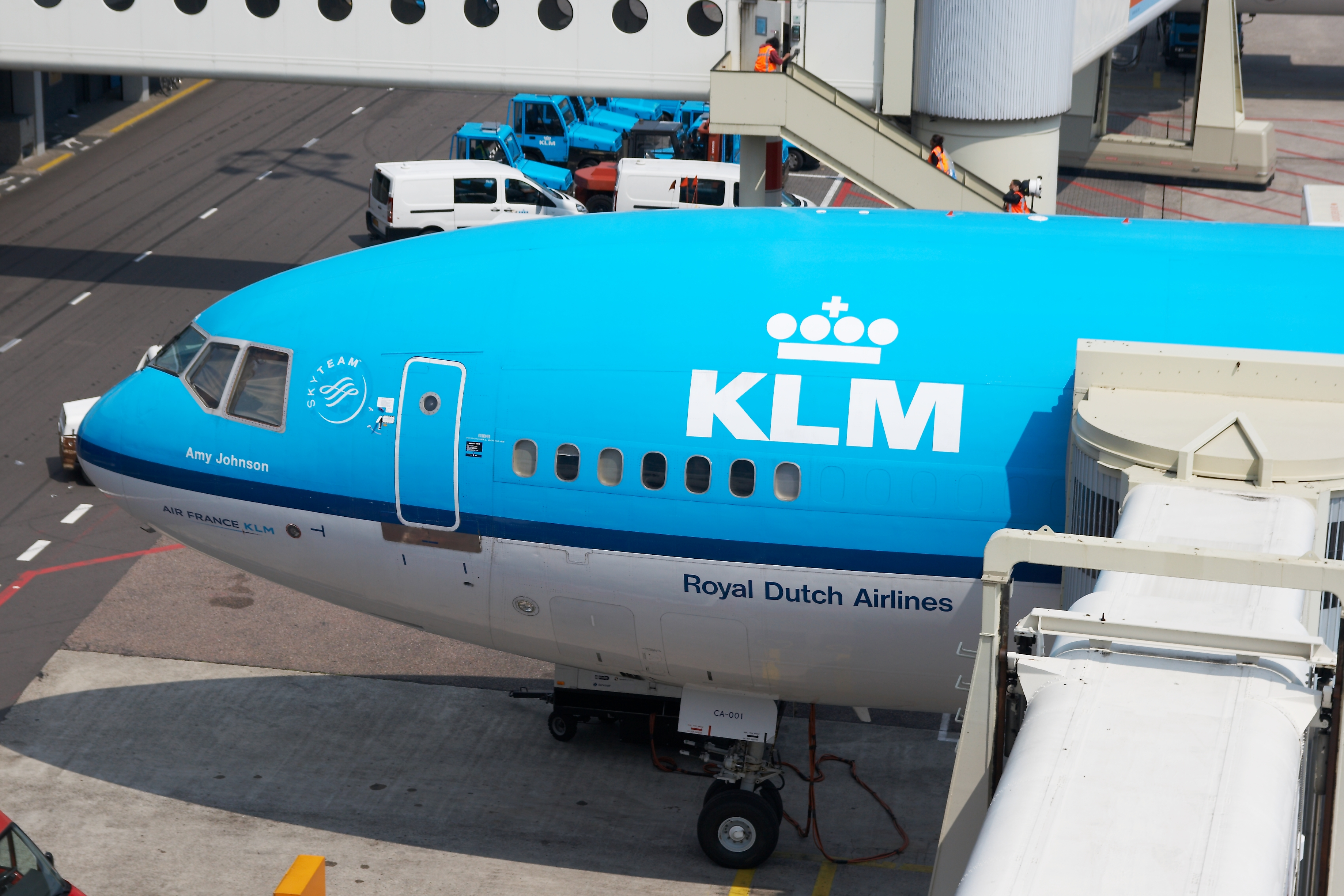 Aircraft: McDonnell Douglas MD-11 Airline: KLM - Royal Dutch Airlines Registration/CN: PH-KCA (cn 48555/557) Place: Amsterdam - Schiphol (AMS / EHAM)